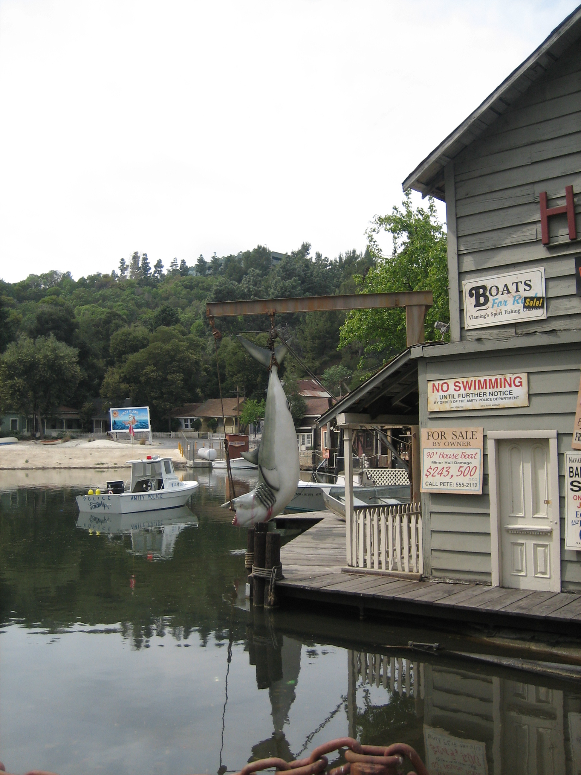 Photo of «Jaws Ride» in Universal Studios Hollywood.